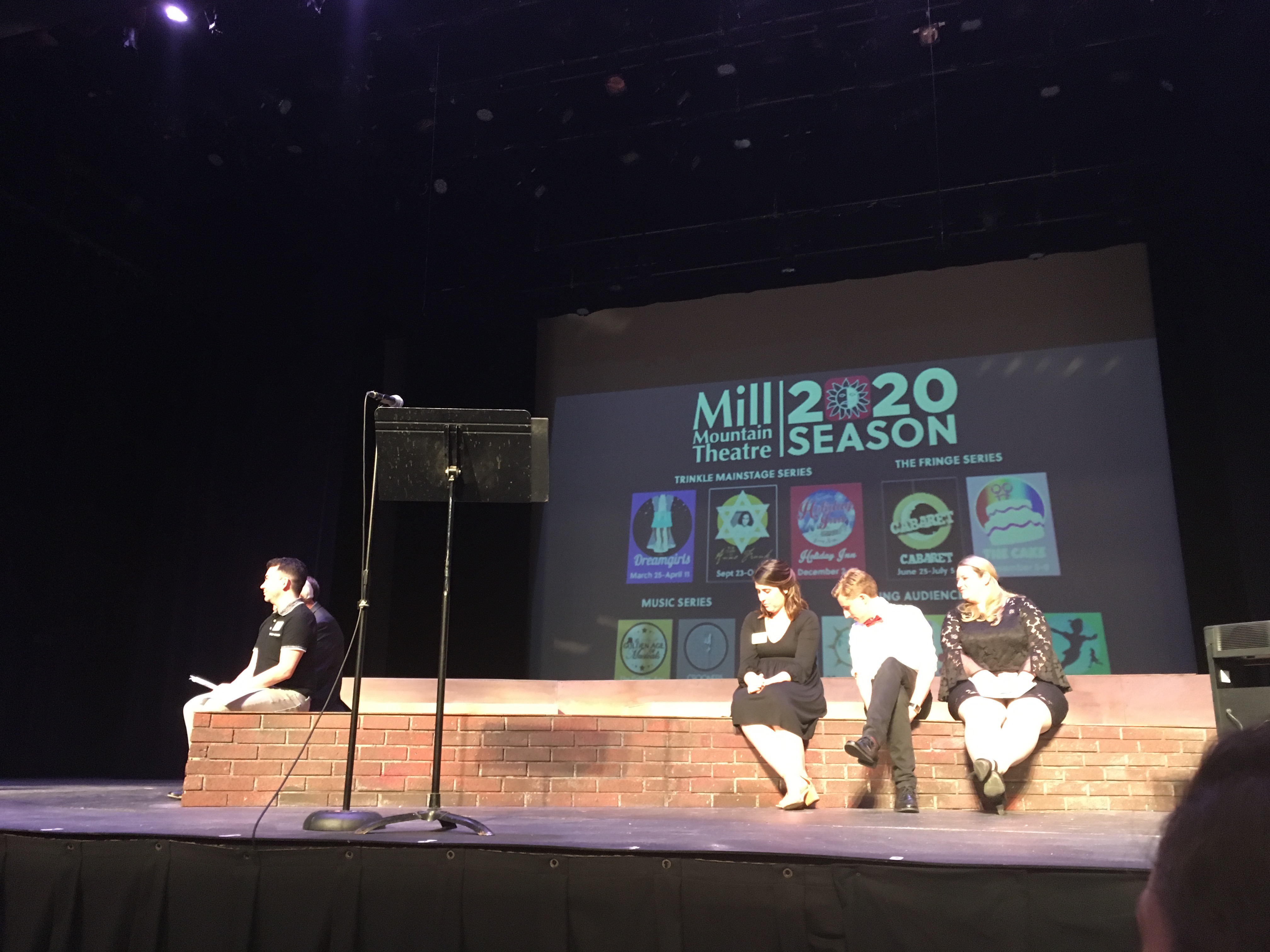 The MMT Staff onstage at the 2020 Season Announcement